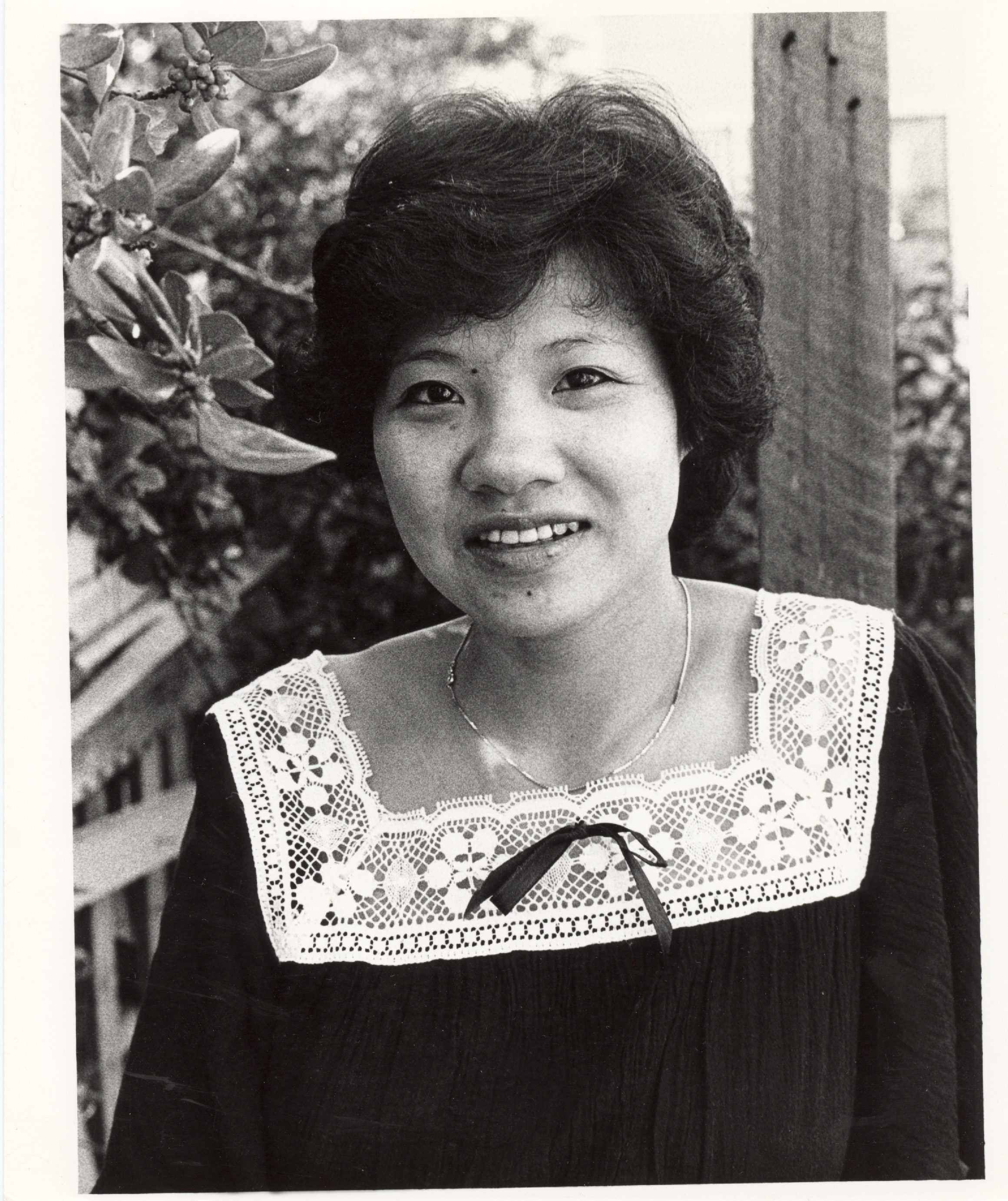 Genny Lim, Poet in 1975, San Francisco. Photo by Nancy Wong